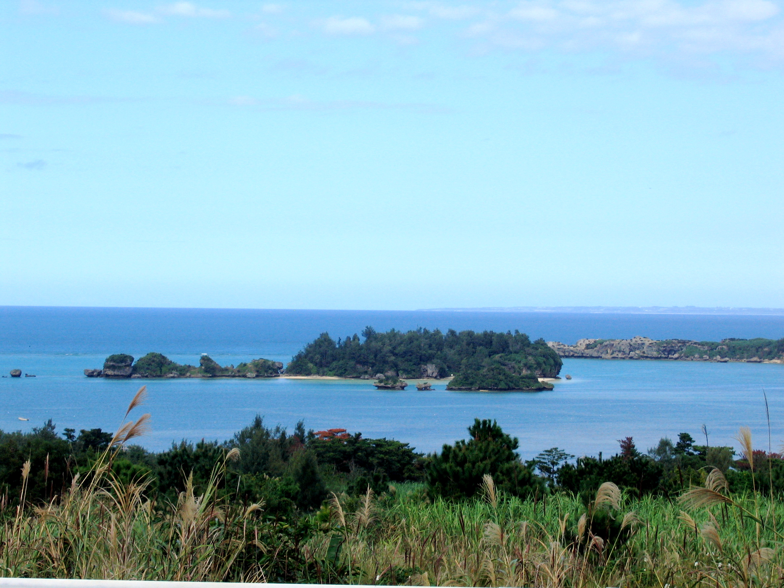 Onna, Okinawa, Japan.